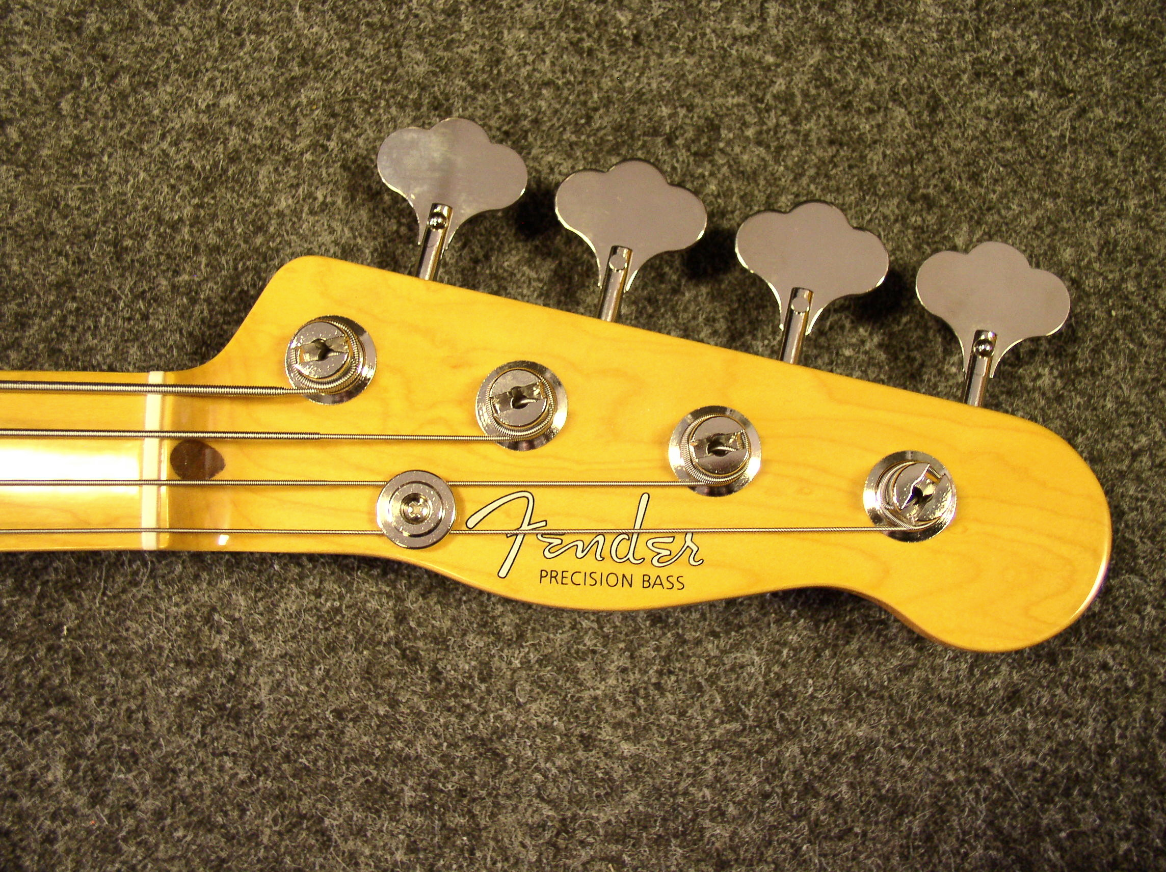 Headstock and tuners of a Fender Precision Bass, 2008 reissue of the first model series of 1951